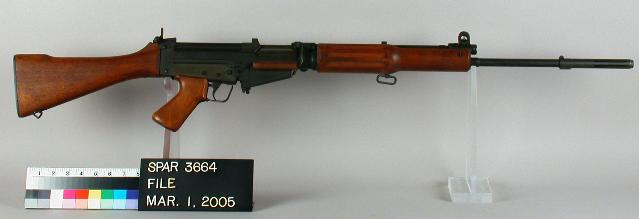 FN RIFLE T48 7.62MM SN# 2078 Markings: Receiver: RIFLE, CALIBER .30, T48. F.N. FABRIQUE NATIONALE D'ARMES DE GUERRE, HERSTAL. BELGIUM.